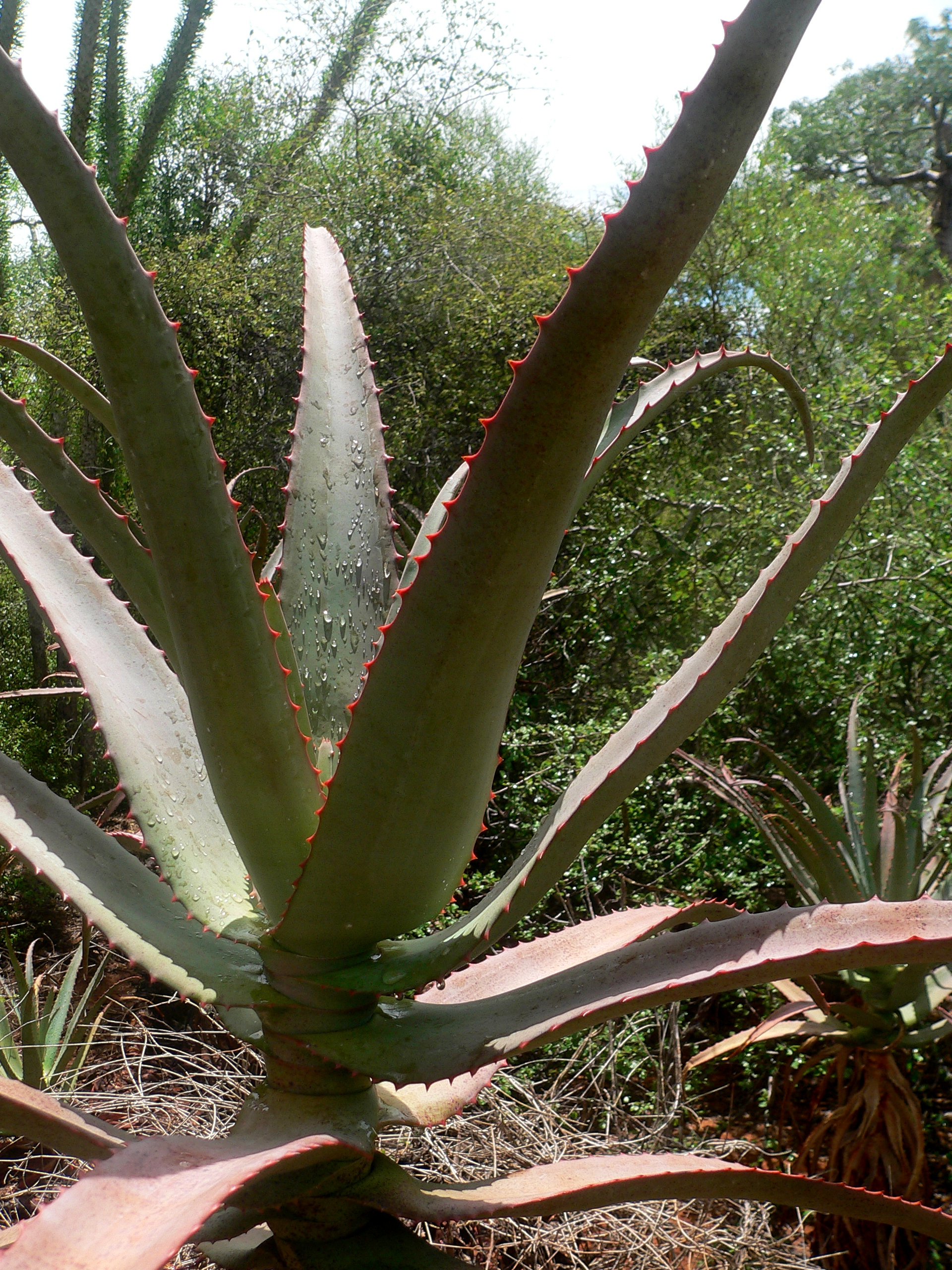 Aloe divaricata, spiny forest at Mangily, western Madagascar